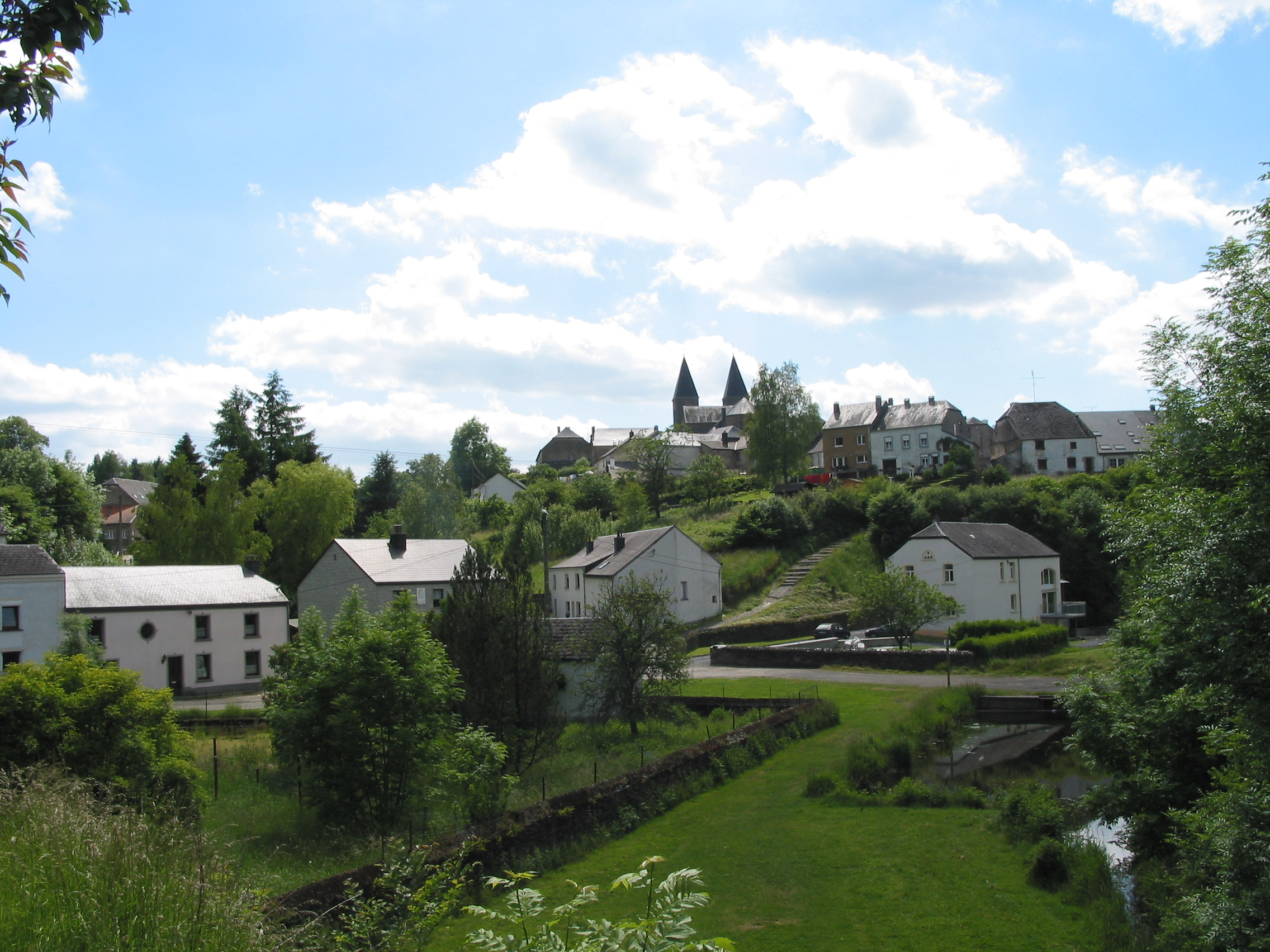 Habay-la-Neuve (Belgium), the village in de springtime.